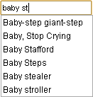 Example of autocomplete feature as seen on Wikipedia